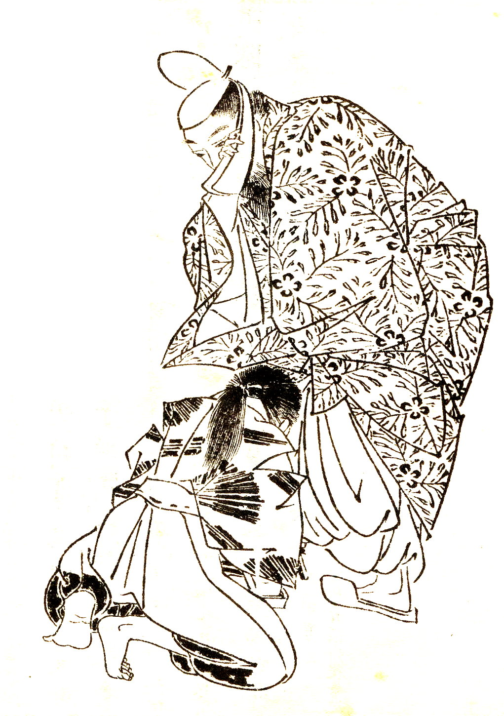 Miyoshi Kiyotsura (三善清行) was a Japanese scholar-statesman who was very inspired by Chinese classical learning.This picture was drawn by Kikuchi Yosai（菊池容斎） who was a painter in Japan.